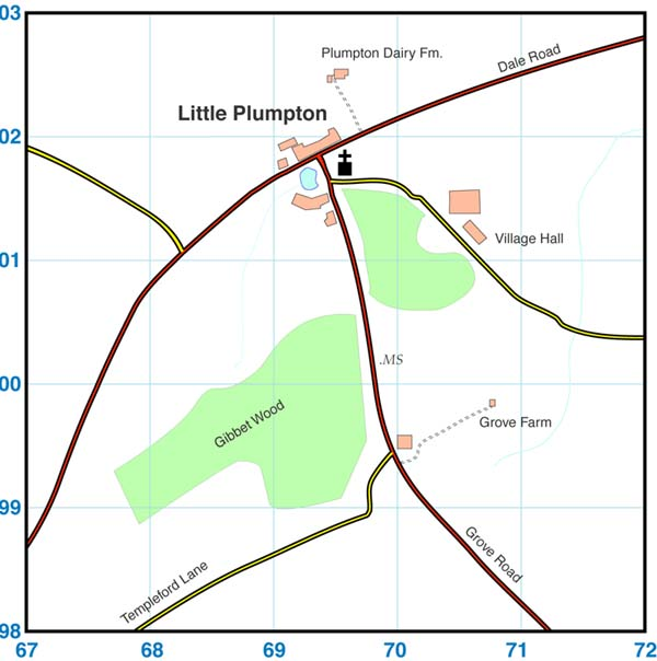 Fictional Map for Illustration Purposes - drawn by the author This map was made to go with the article grid reference, but may have other uses. It loosely follows the conventions of the Ordnance Survey, but is a fictional place drawn from scratch and does not contravene any copyrights of the OS or anyone else. The illustration was created using Adobe Illustrator and downsampled and converted to a JPEG using Photoshop.